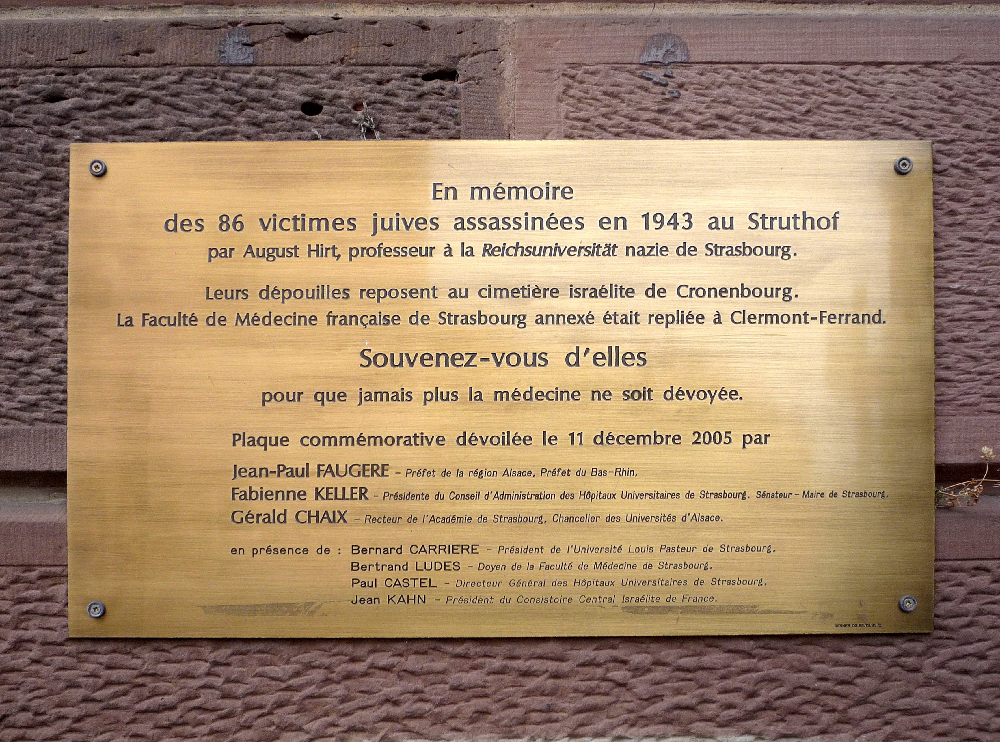 English translation of the inscription: In memory of the 86 Jewish victims assassinated in 1943 at Struthof by August Hirt, professor at the Nazi Reichsuniversität Straßburg. Their remains rest in the Israeli cemetery in Cronenbourg. The French Faculty of Medicine of annexed Strasburg had moved to Clermont-Ferrand. Remember them so that never again medicine is misguided. Commemorative plaque unvailed December 11, 2005 by: Jean-Paul Faugere, Prefect of the Region of Alsace, Prefect of the Lower-Rhine Fabienne Keller, President of the Administrave Council of the University Hospitals of Strasbourg (rest of the inscription is unclear) Gerald Chaix, Rector of the Academy of Strasbourg, Chancellor of the Universities of Alsace In the presence of: Bernard Carriere, President of Louis Pasteur University of Strasbourg Bertrand Ludes, Dean of the Faculty of Medicine of Strasbourg Paul Castel, Director-General of the University Hospitals of Strasbourg Jean Kahn, President of the Isreali Central Consistory of France